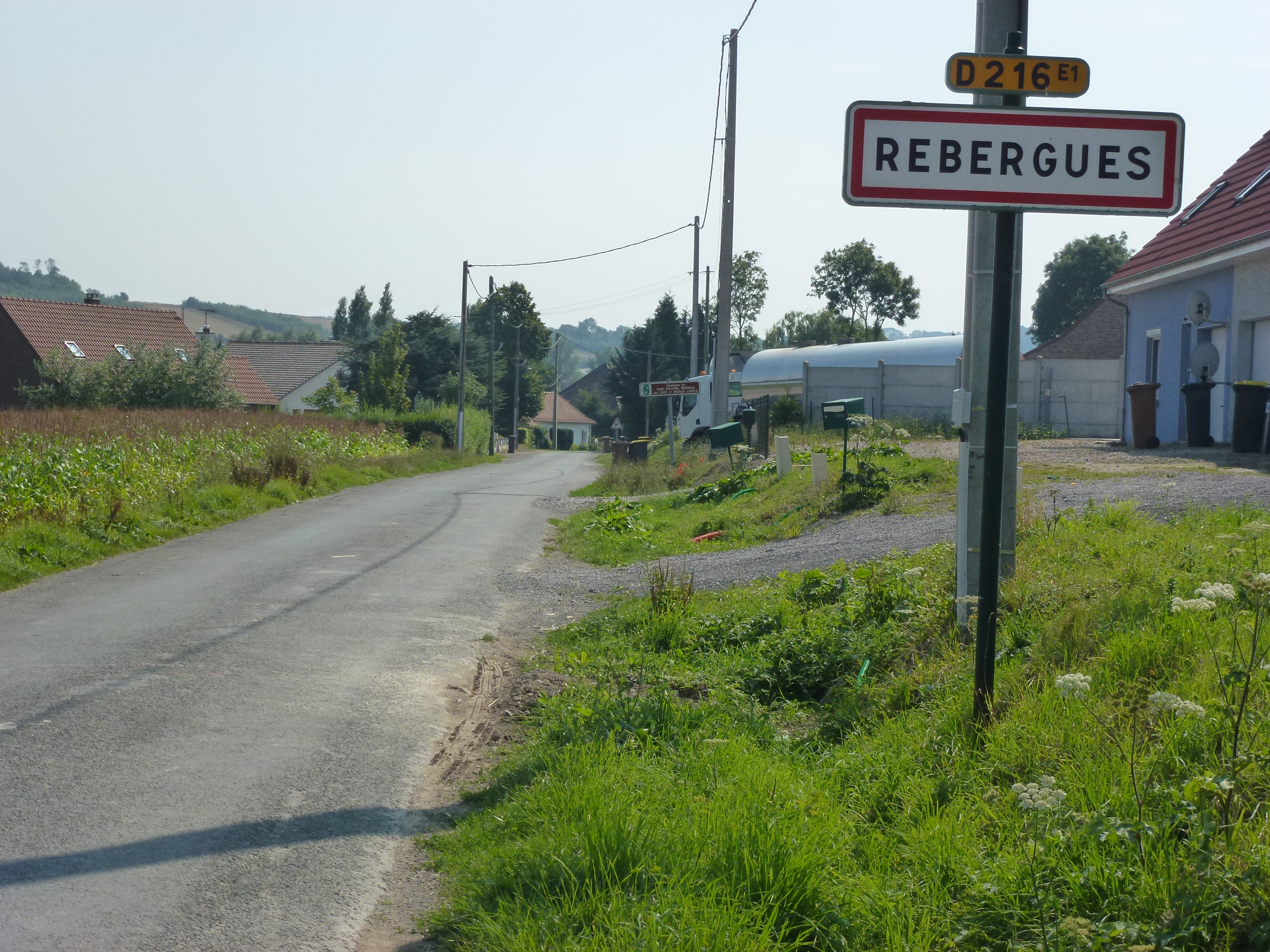 Rebergues (Pas-de-Calais) city limit sign